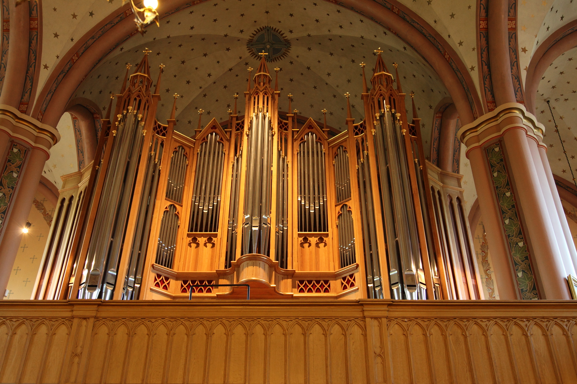 The Paschen Kiel Organ in the Central Pori church, Finland